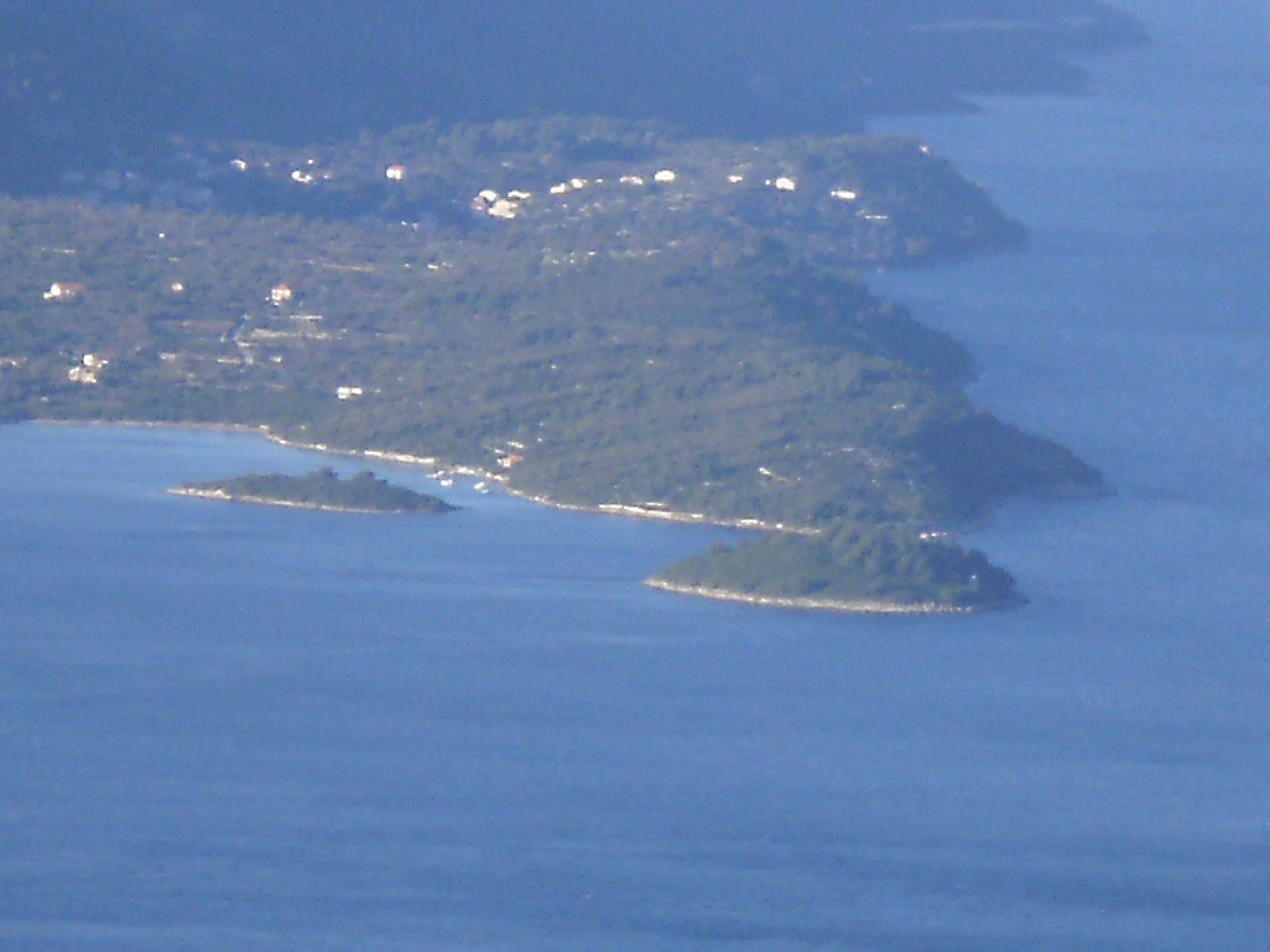 Islands Mala Kneža and Vela Kneža in Pelješac channel